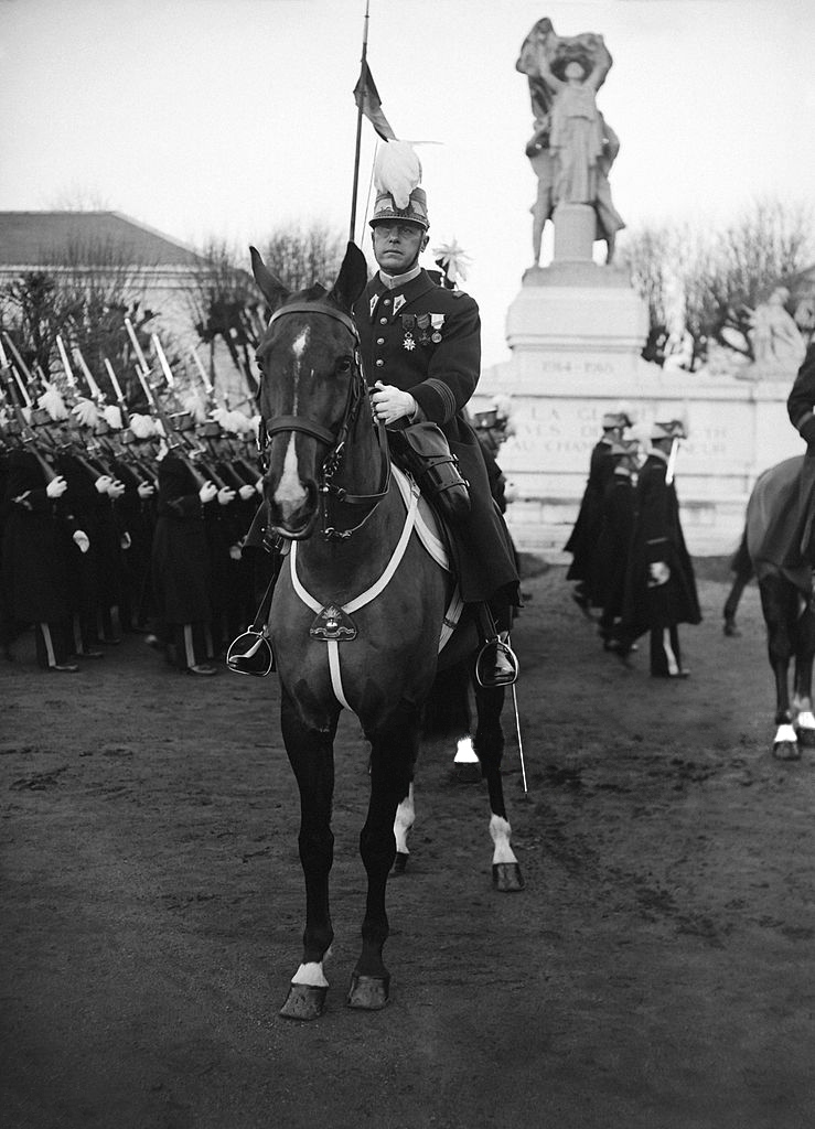 New Saint Cyr commander Colonel Jacques Groussard during a ceremony in the courtyard of the school on March 31, 1938 in Saint-Cyr, France.